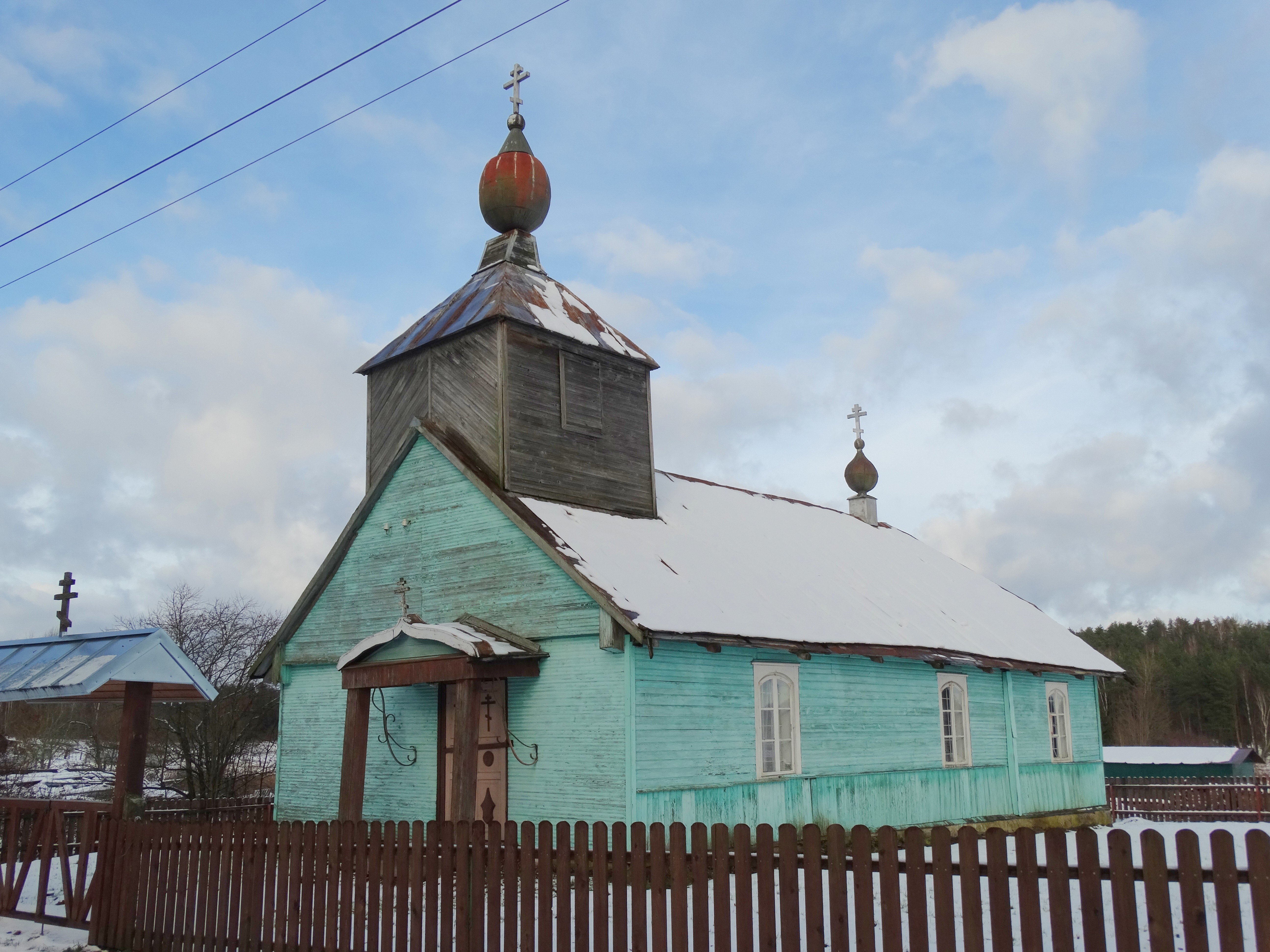 Old Believers Church, Daniliškės, Trakai district, Lithuania